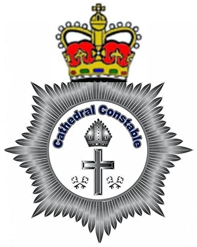 Cathedral Constables' Crest